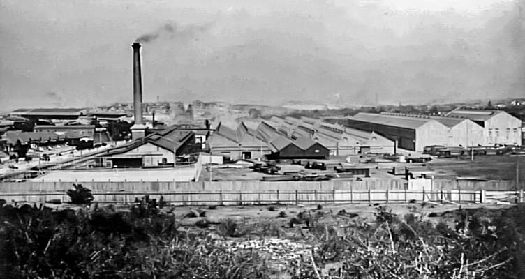 Tramway workshop, Randwick 1919